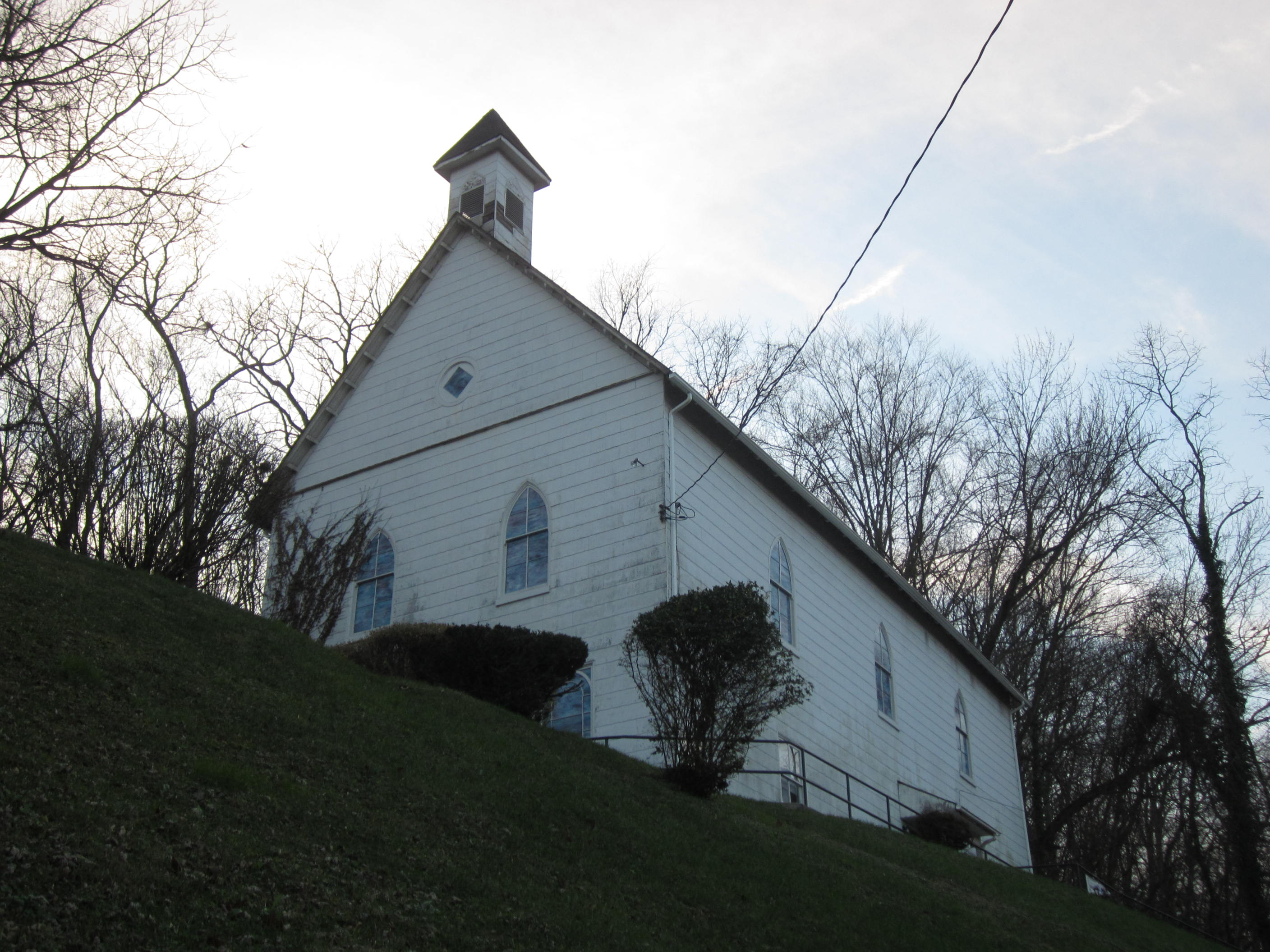 Ellicott City, Maryland